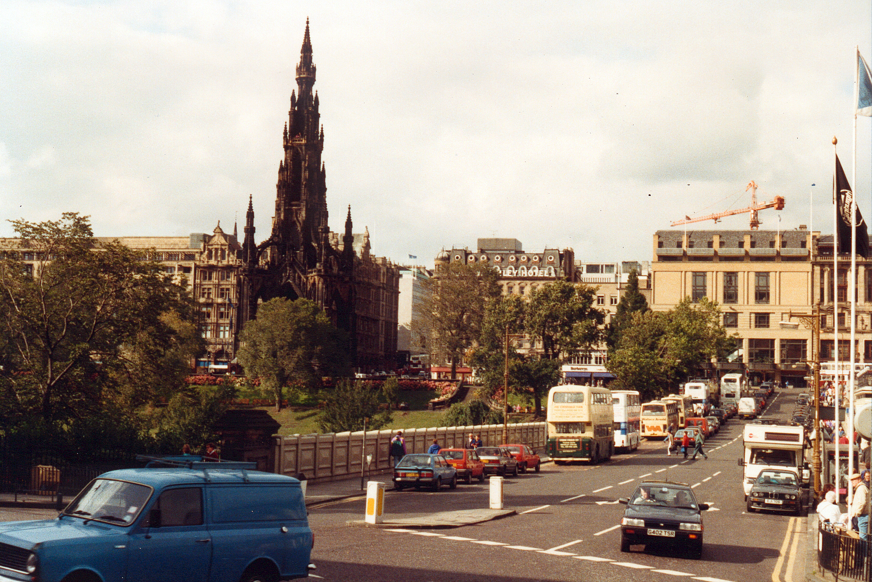 Edinburgh, Scott monument viewed from across Waverley Bridge.